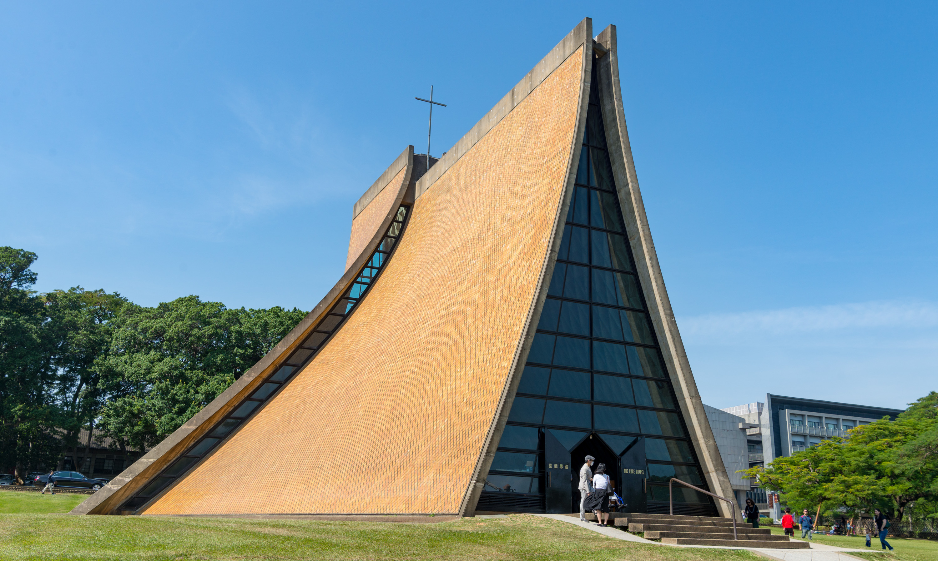 Luce Memorial Chapel in Taichung